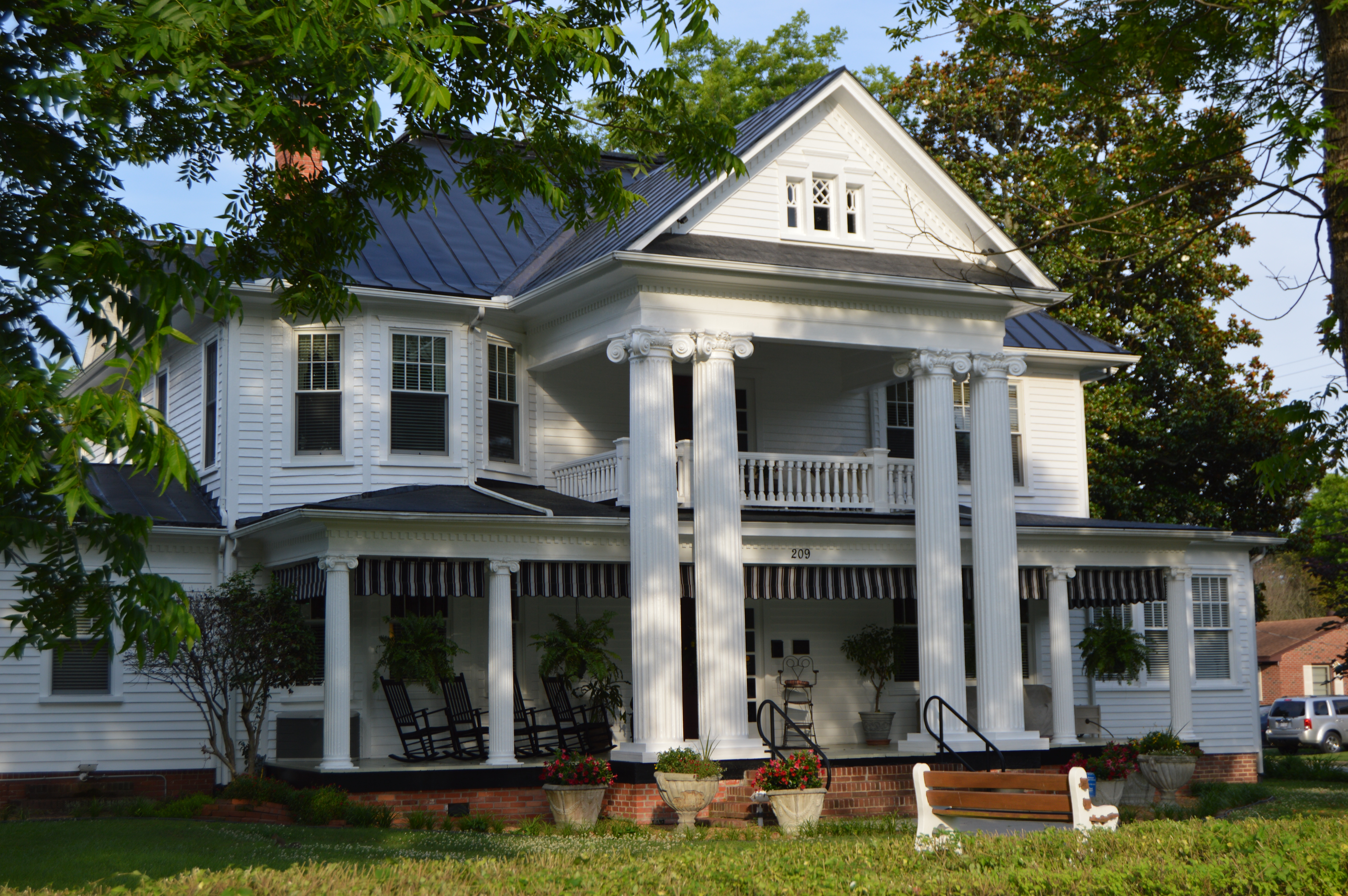 Front of the Roberts H. Jernigan House, located at 209 S. Catherine Creek Road in Ahoskie, North Carolina, United States. Built in 1917, it is listed on the National Register of Historic Places.